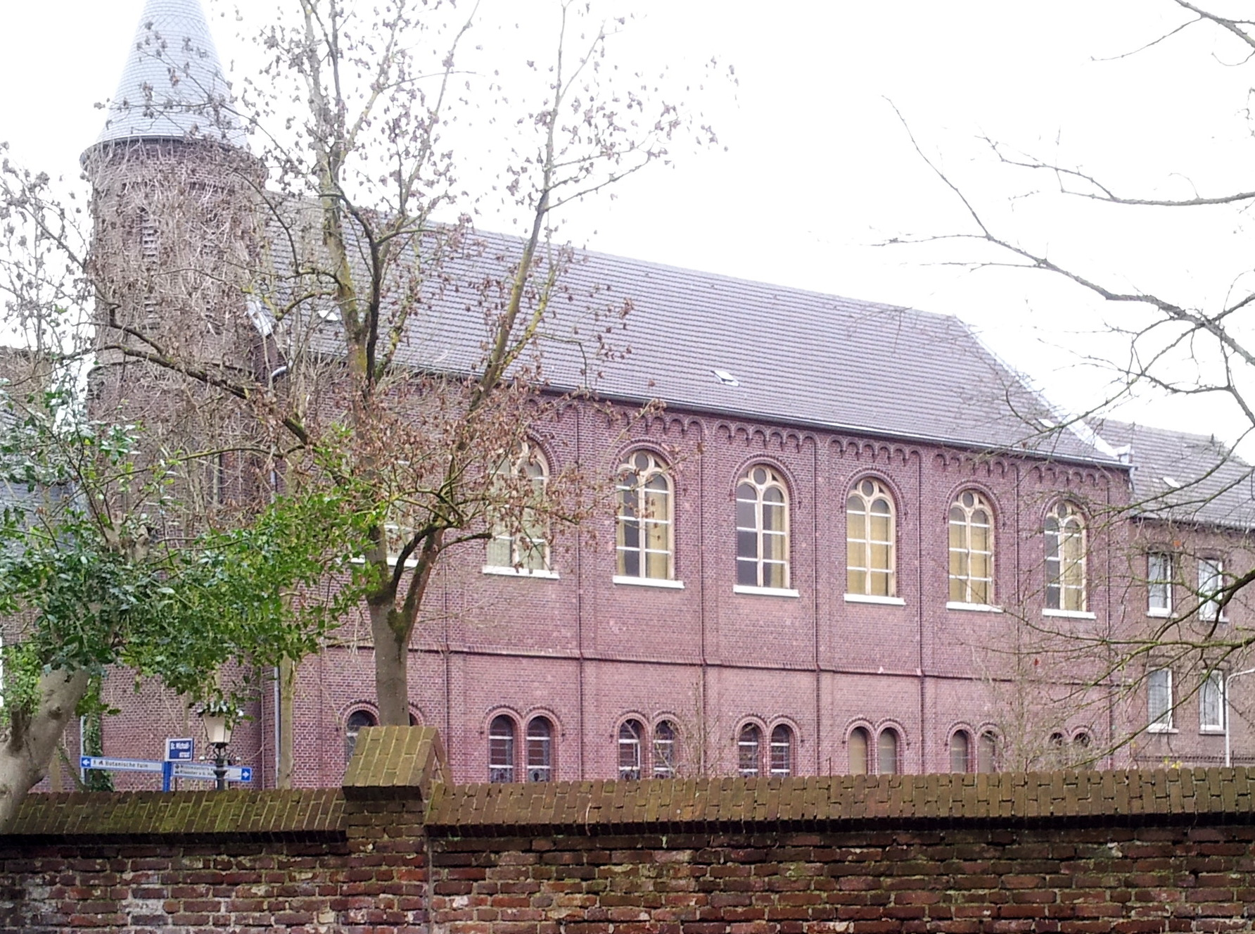 View of Jochumhof in Tegelen-Steyl, Limburg, the Netherlands. The botanical garden was started in 1933 by Father Peter Jochum as a hortus medicus for students of the nearby seminary of future missionaries of the Societas Verbi Divini (SVD). It is now mainly run by volunteers. In the background the double chapel of St Gregor, one of the buildings of Missiehuis Steyl.